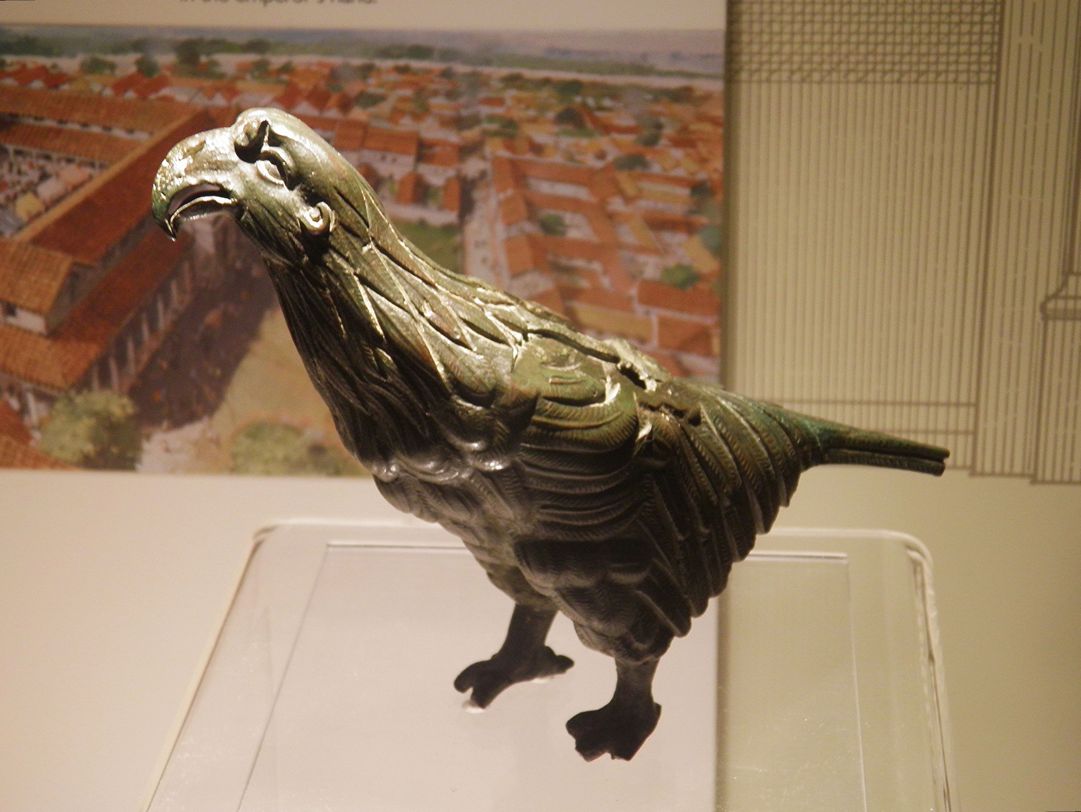 This cast bronze figure of an eagle was found in the Basilica of the Roman town of Calleva, near Silchester, on the 9th October 1866 during excavations being undertaken by Rev. J.G.Joyce. The bird is posed with its wings outstretched, its head raised and turned to the right. The original wings are missing but it is clear, from the careful modeling of the feathers beneath them, that they must have been extended and raised. In 1962 Jocelyn Toynbee described the eagle as ‘by far the most superbly naturalistic rendering of any bird or beast as yet yielded by Roman Britain’. It was repaired during its lifetime when new wings and probably new feet were fitted. Later it lost its replacement wings and suffered damage to its replacement feet. The curve of the underside of the feet suggests that the eagle’s claws once grasped the surface of a globe, also now missing, probably held in the hand of a statue of an emperor or a god. The eagle is not a legionary eagle, but was immortalized as such by Rosemary Sutcliff in her children’s books The Eagle of the Ninth and The Silver Branch.